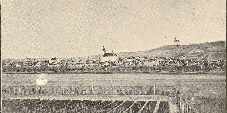 Picture of Bzenec from Hasičská kronika.